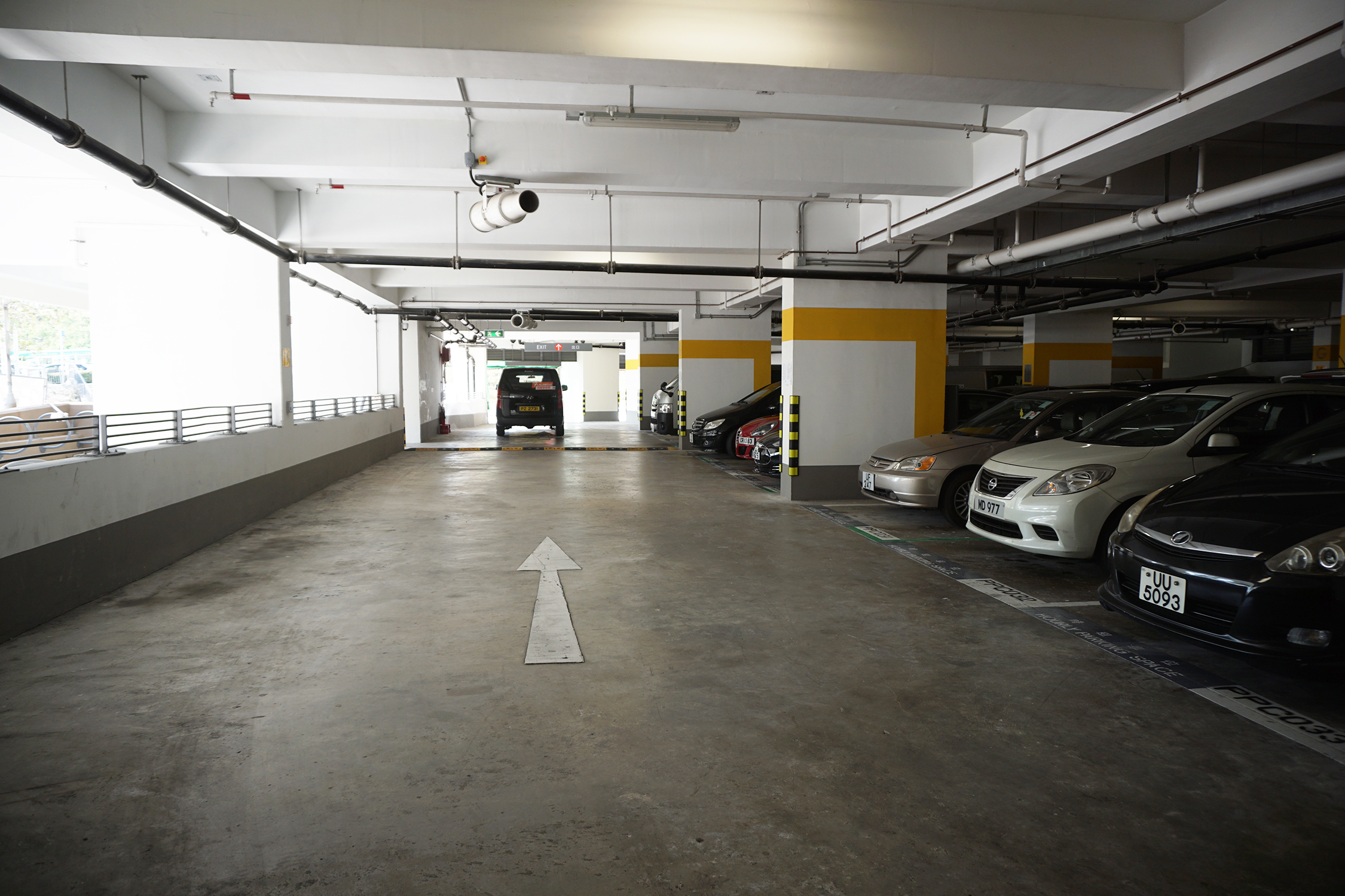 Po Shek Wu Estate in Sheung Shui, Hong Kong.